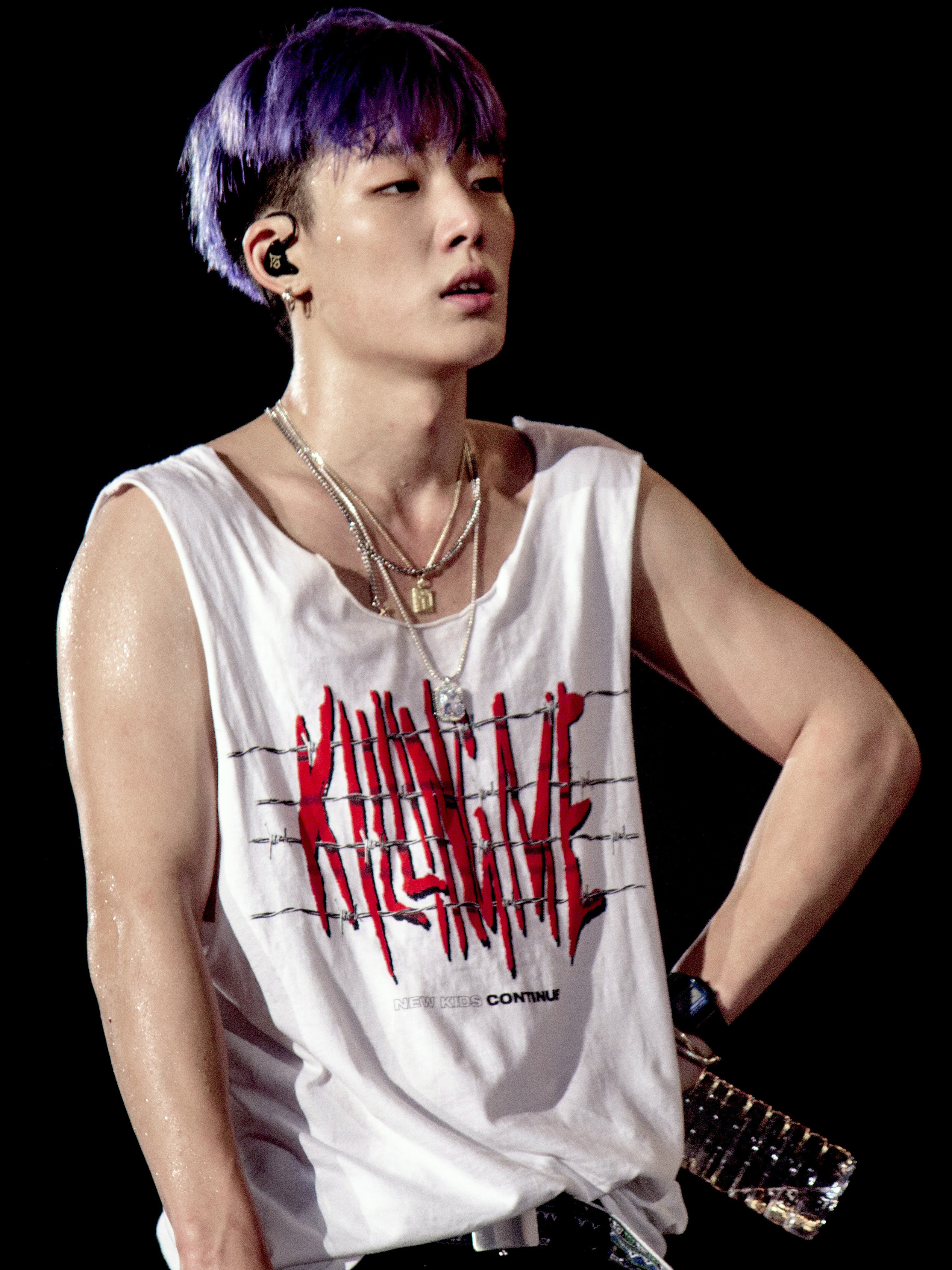 Bobby at the iKon 2018 Continue Tour in Seoul on August 18, 2018.